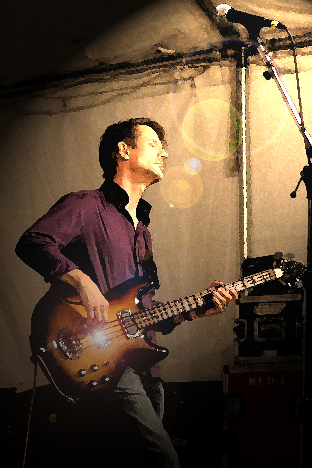 Graham Maby playing bass with Marshall Crenshaw at the Falcon Ridge Music Festival.